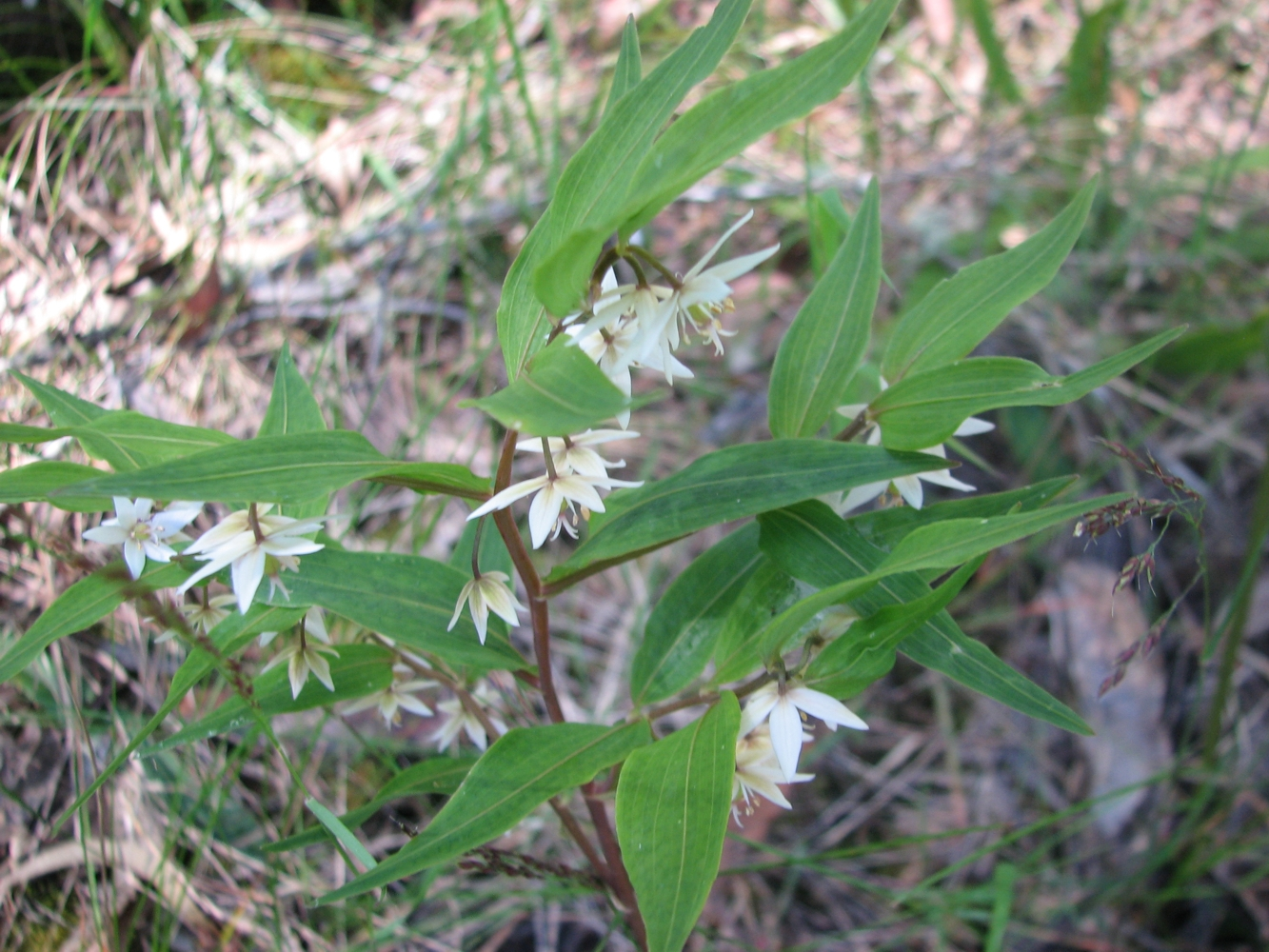 Drymophila cyanocarpa, near Aberfeldy, Victoria, Australia